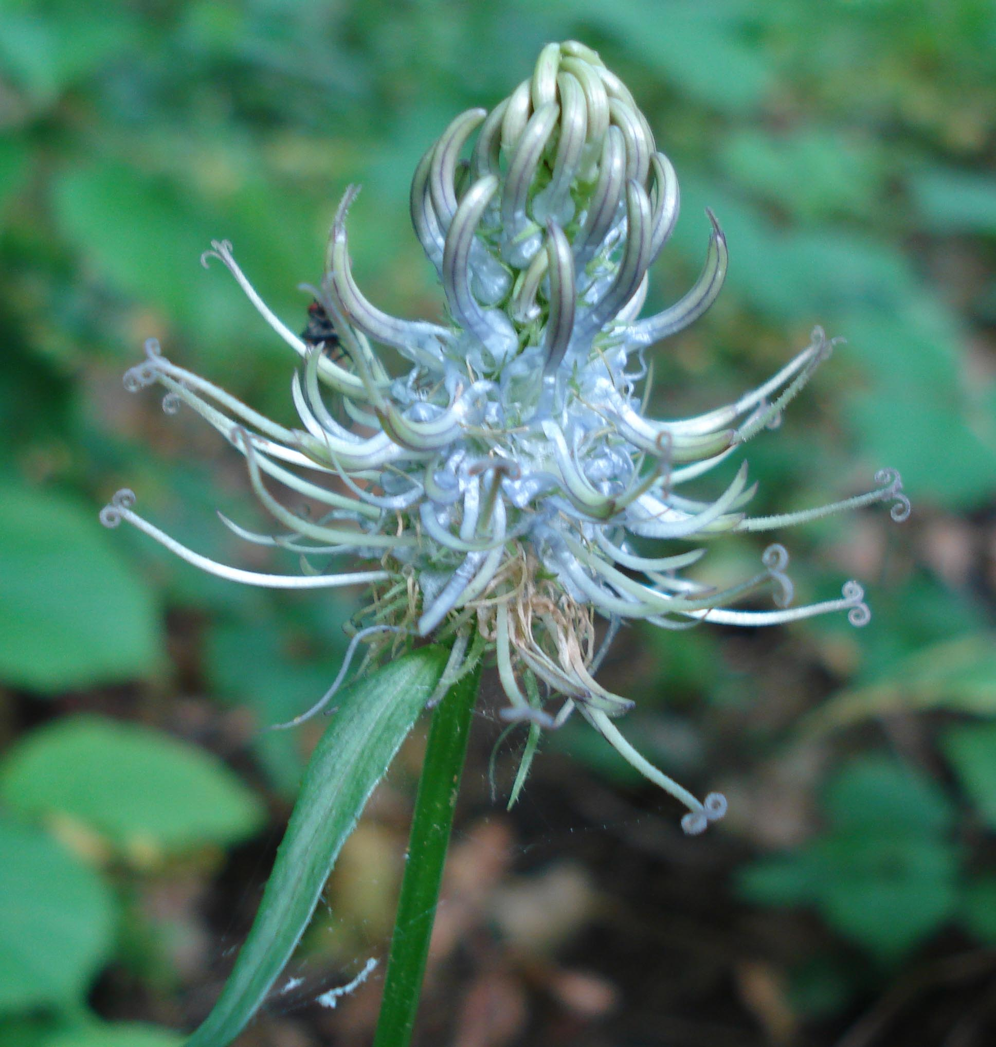 Phyteuma × adulterinum, Unterfranken, Germany